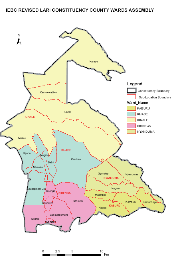 An Extracted Map of Lari Constituency